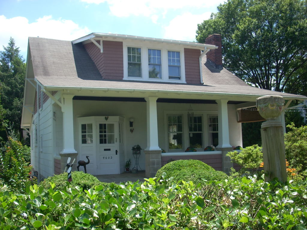 4602 17th St N, Waverly Hills Historic District (Arlington, Virginia)